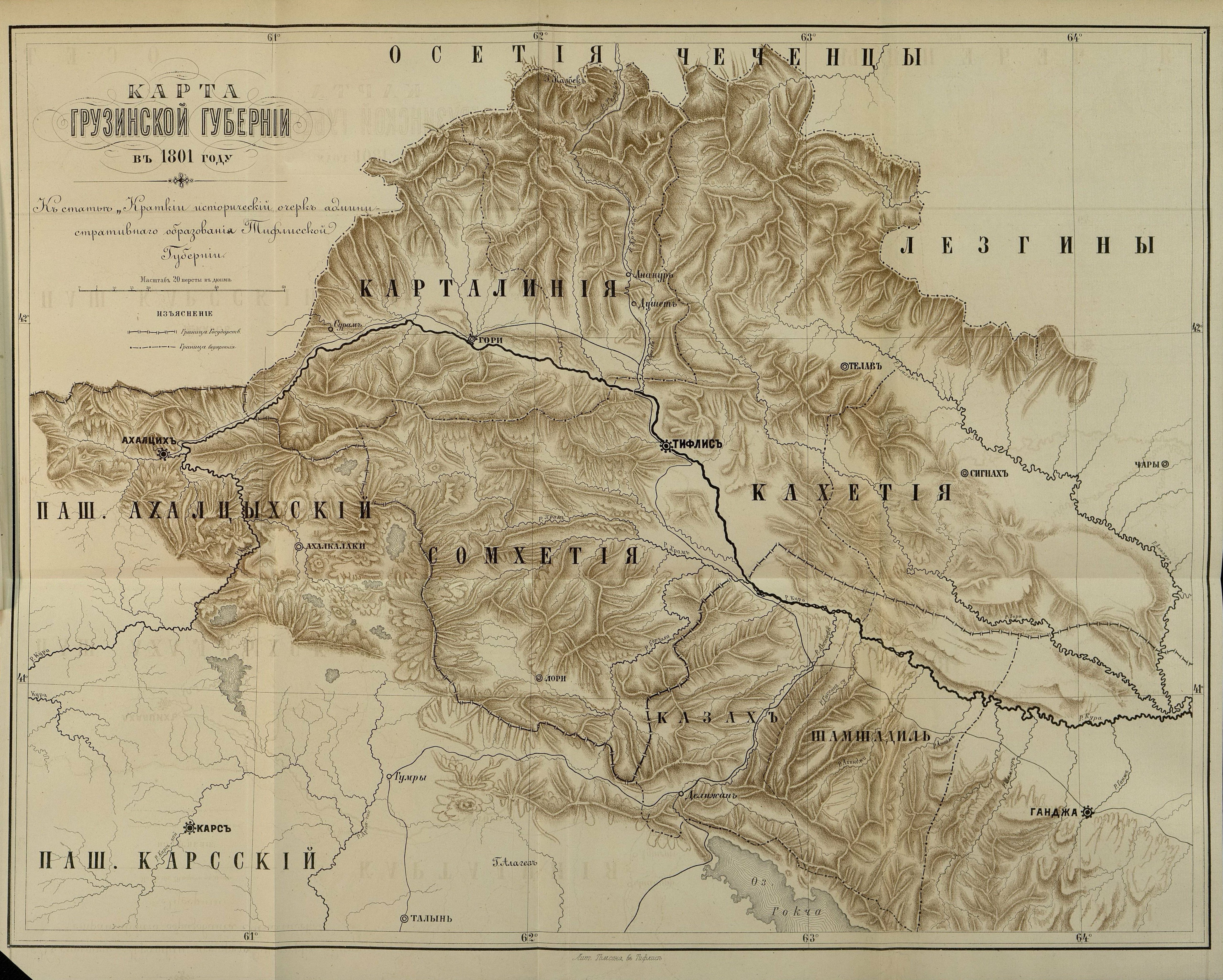 Georgian governorate 1801 year